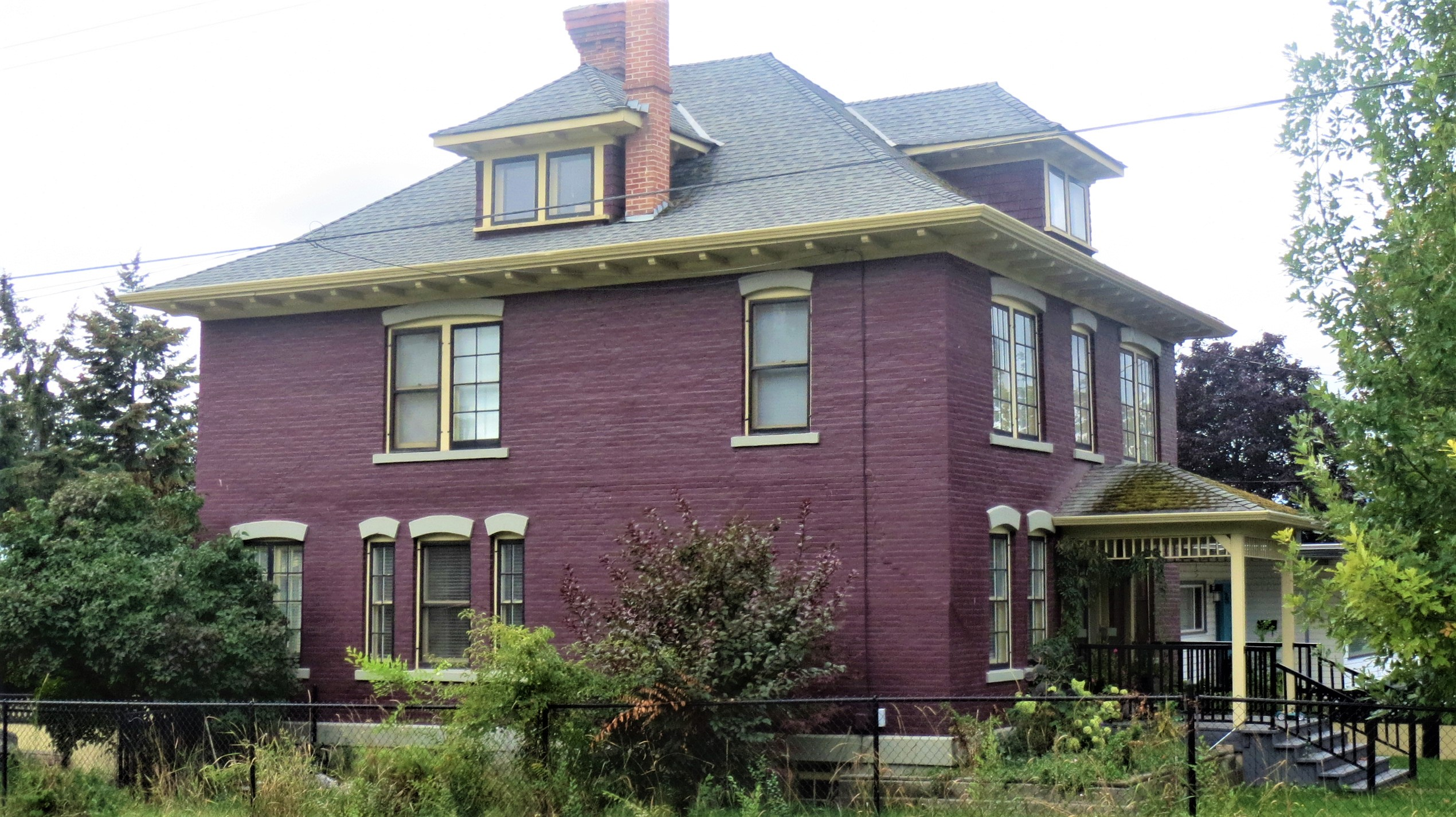 Second Crowell House Vernon, BC